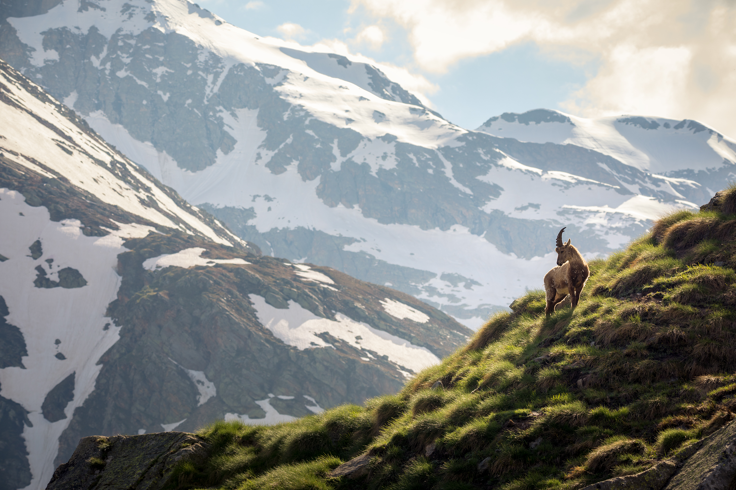 Taken in Alta Valle Orco, Piedmont. A young male ibex grazes the first grass